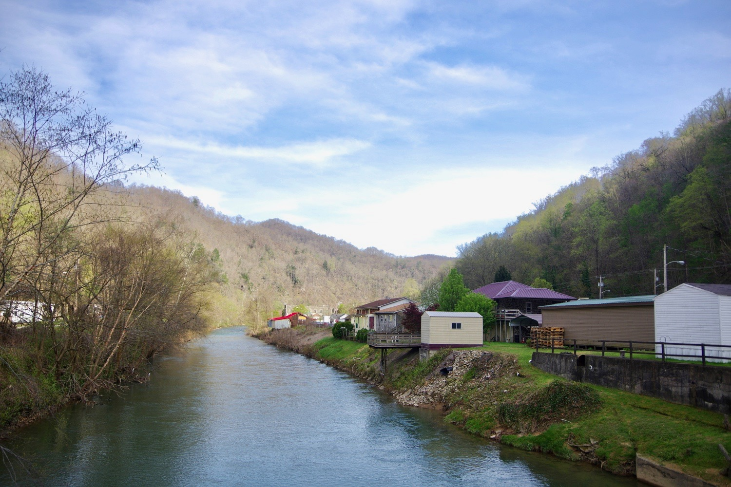 The Big Coal River passing through Whitesville, West Virginia, United States.